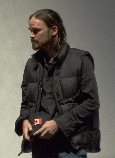 Jeremy Davies answers questions after the premiere screening of Rescue Dawn in Toronto.